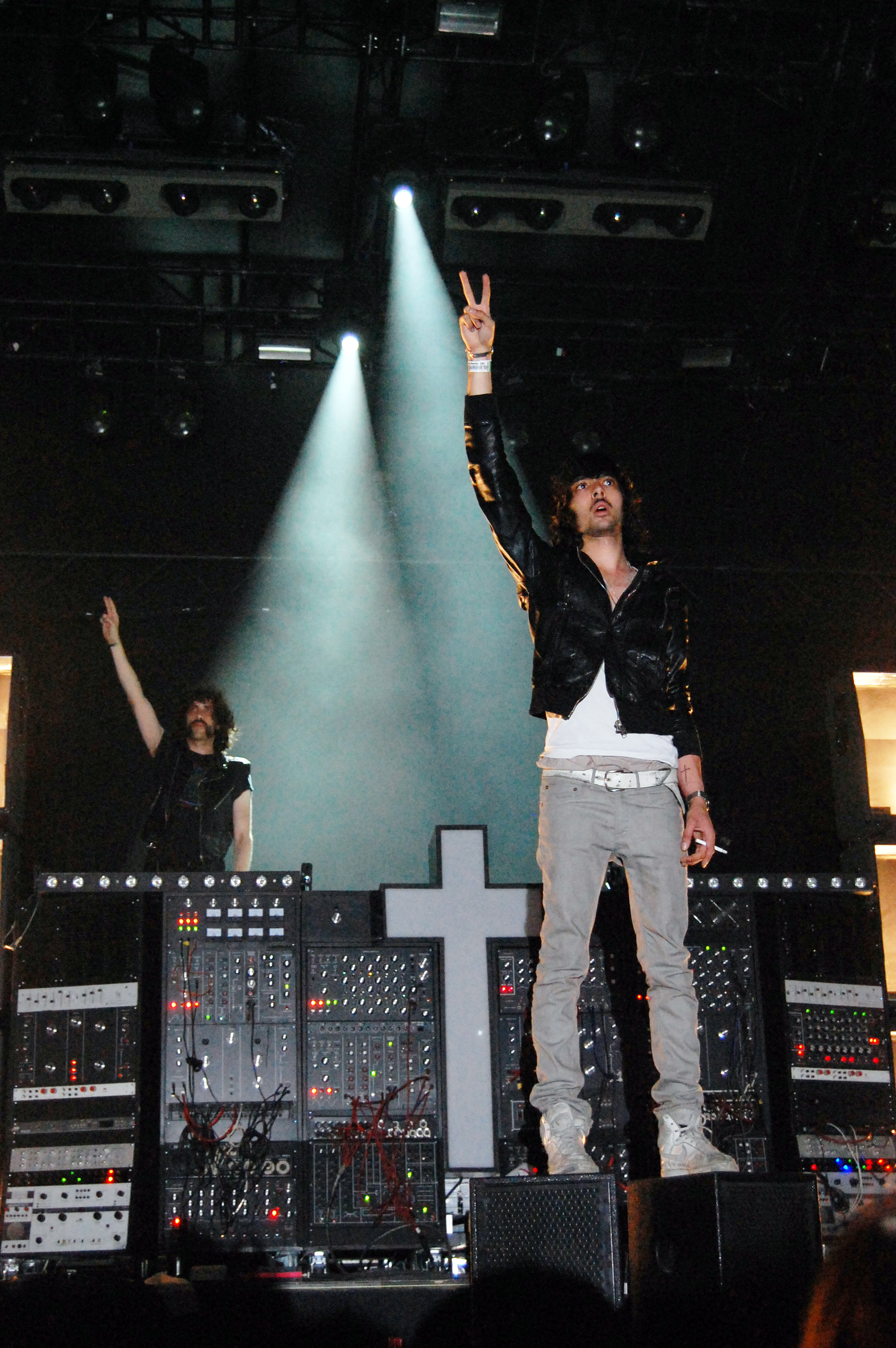 Justice at the end of their show at the Rock Werchter festival, Belgium 2008.